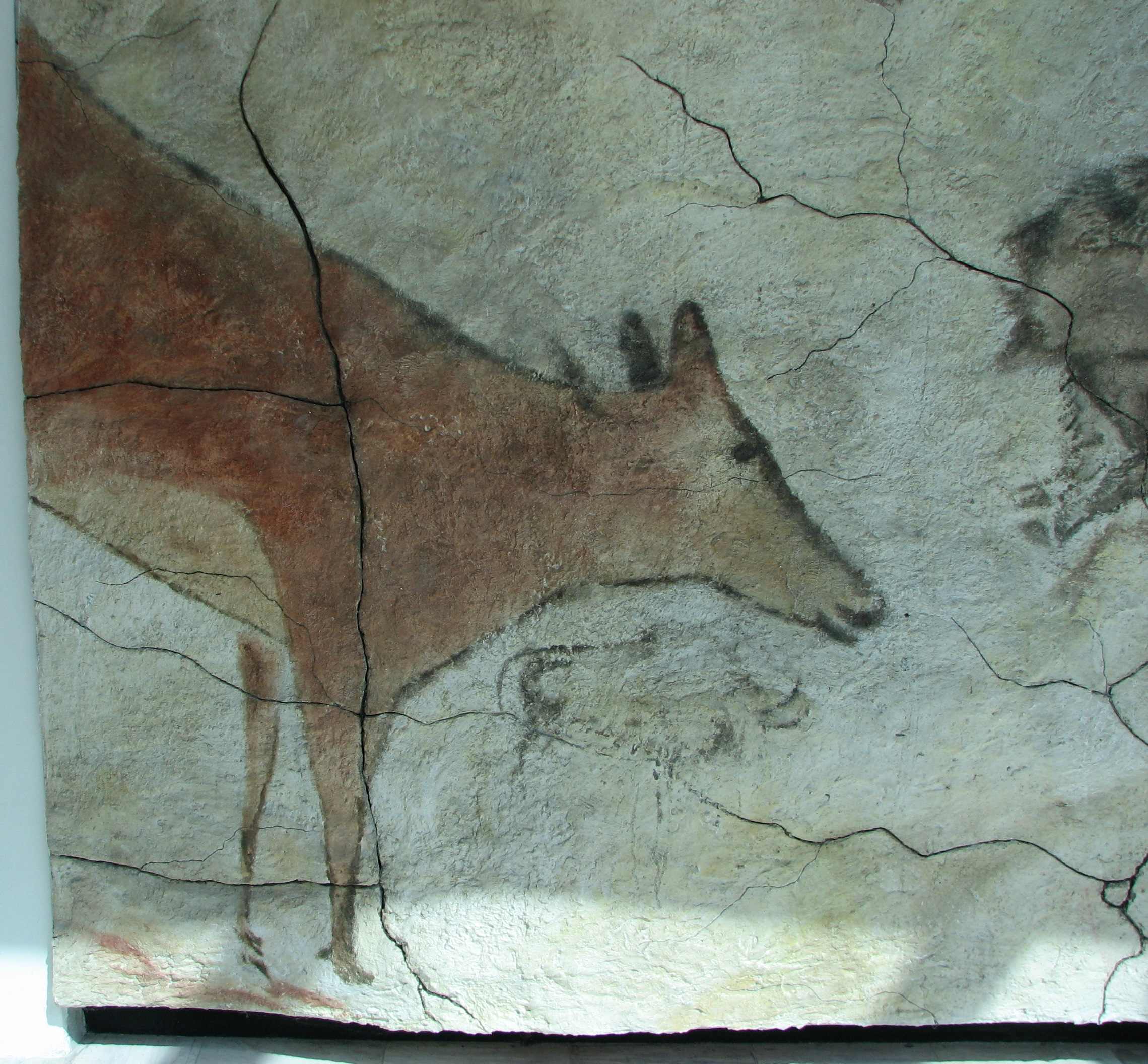 A doe from the model of the ceiling of Altamira, in the Brno museum Anthropos